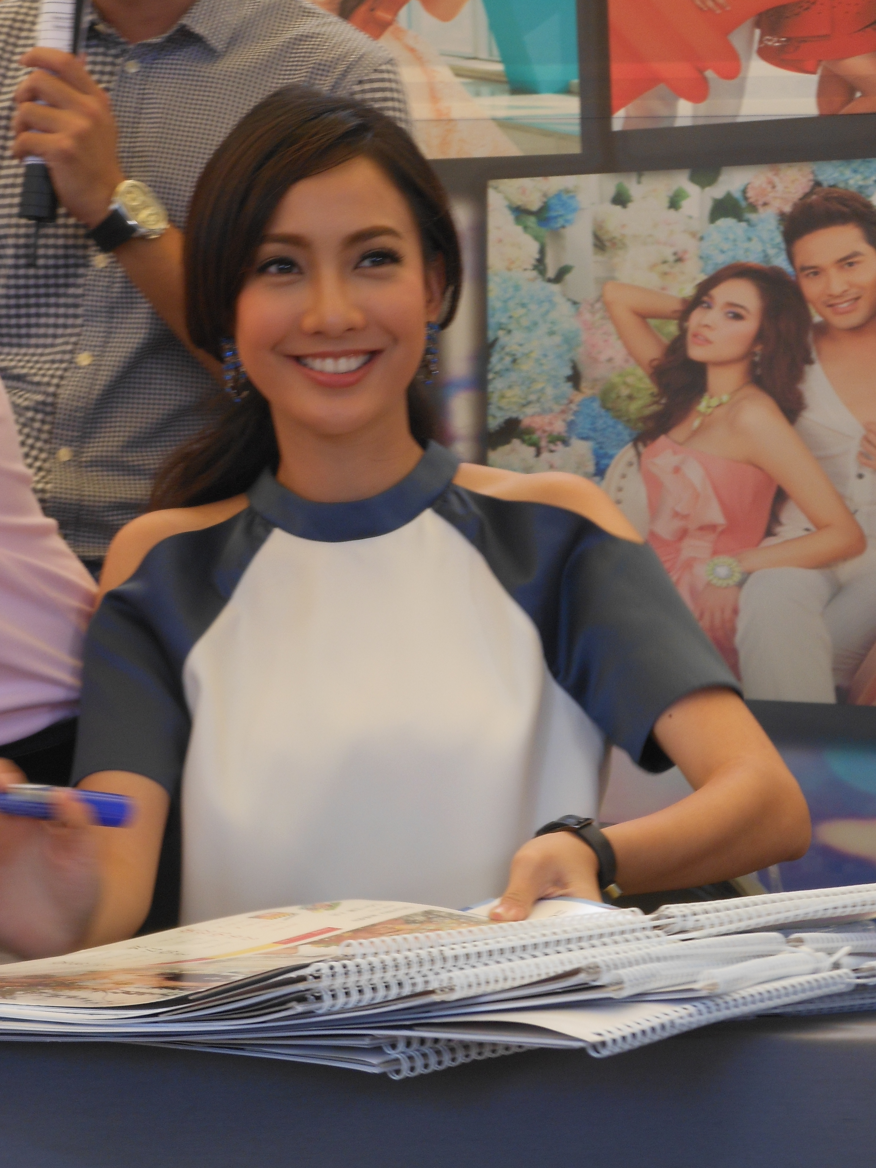 Taew Nattaporn Tameeruks